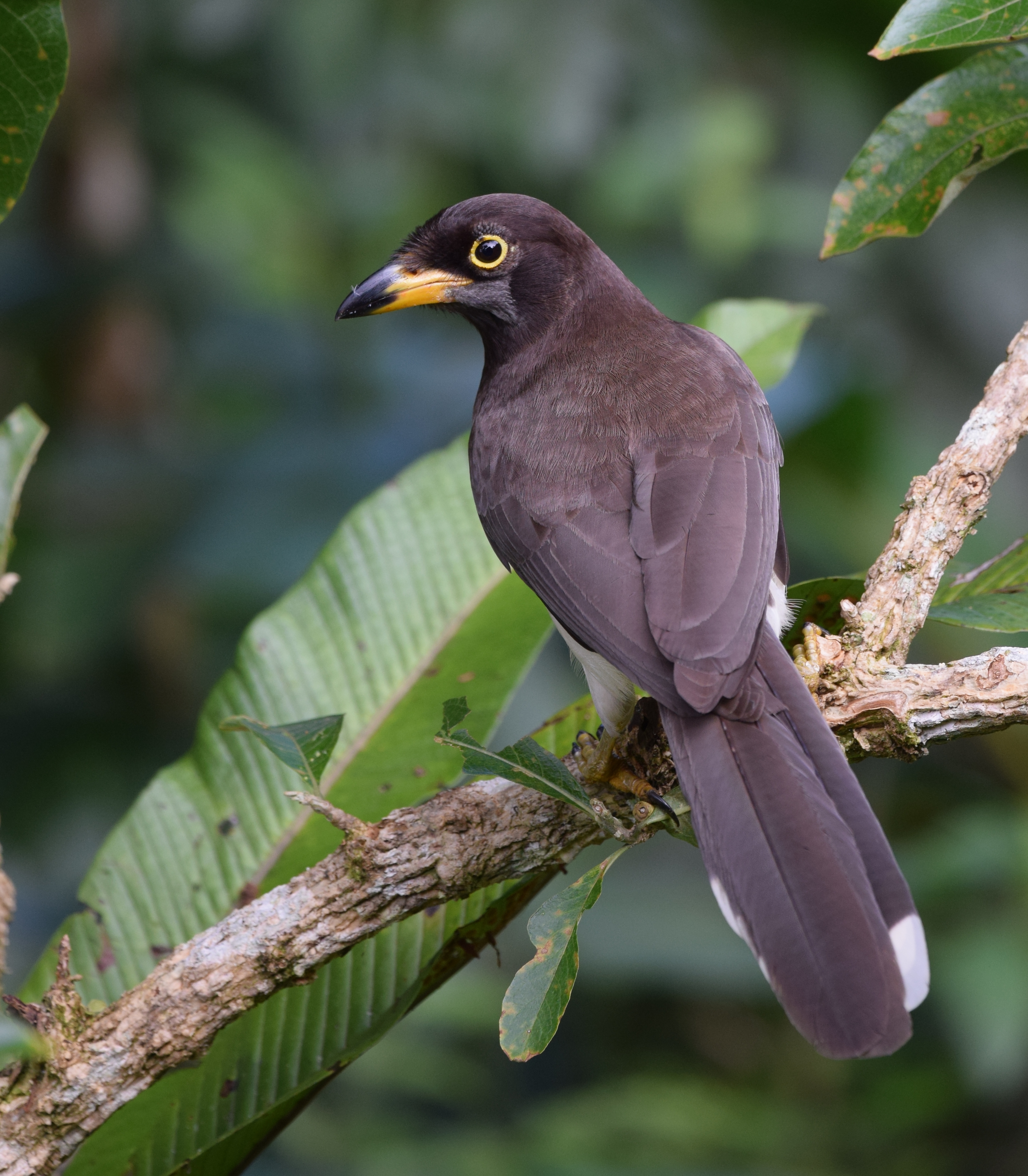 Costa Rica 2/14/16 Rancho Naturalista